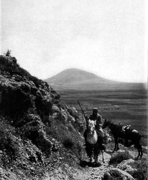 Mount tabor view